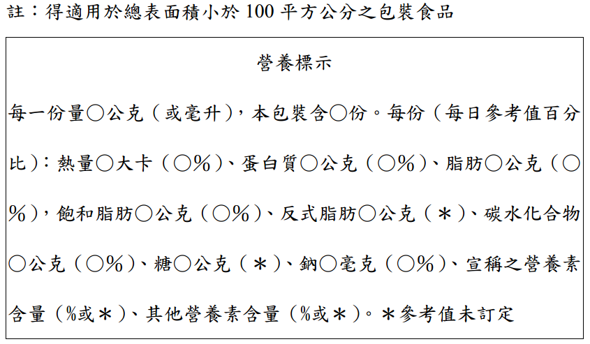 Nutrition facts label format 1-4 of Taiwan